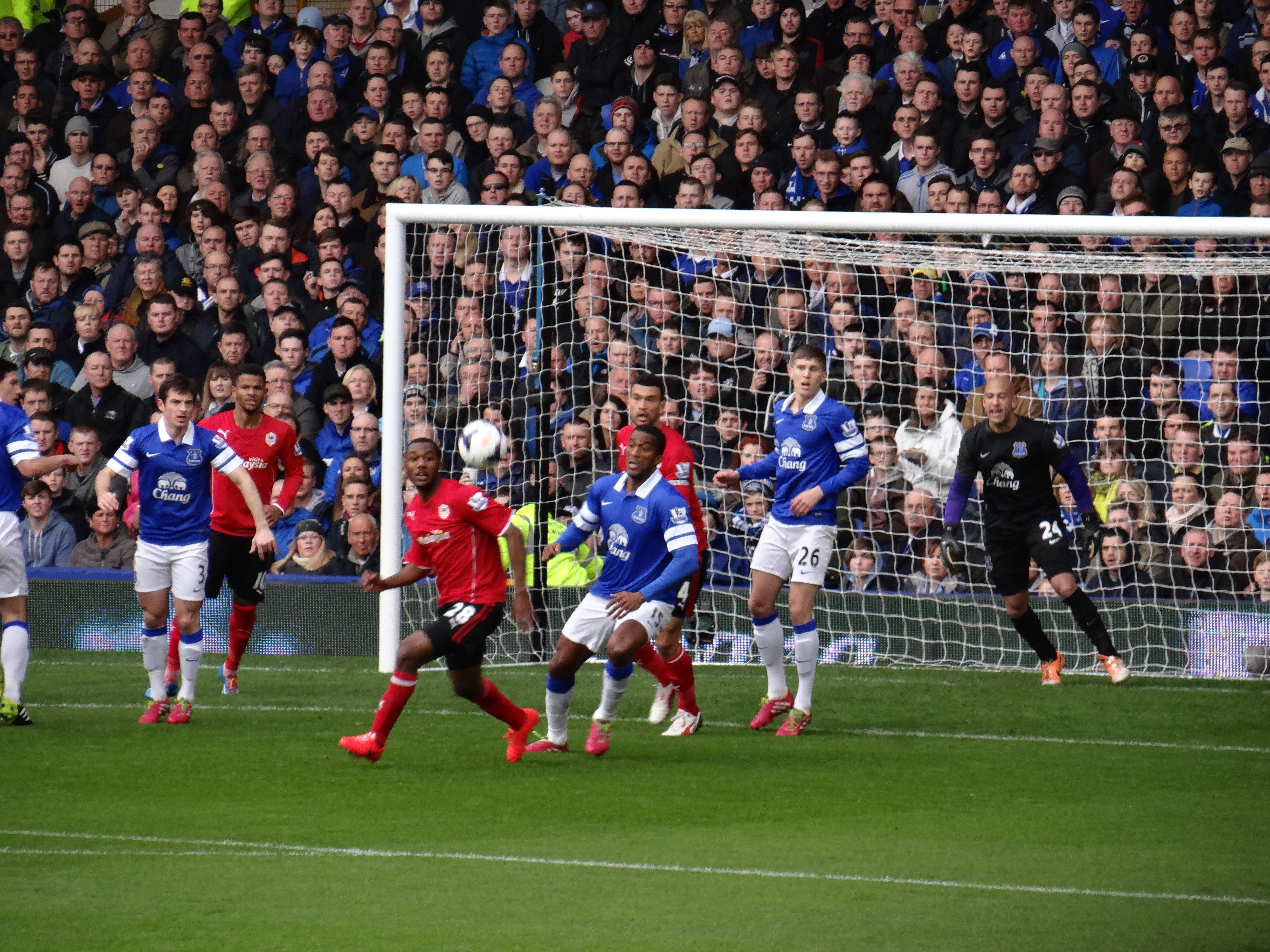 Players of Everton (in blue) and Cardiff City (in red) – from left to right: Gareth Barry, Leighton Baines, Fraizer Campbell, Kévin Théophile-Catherine, Sylvain Distin, Steven Caulker, John Stones, Tim Howard).